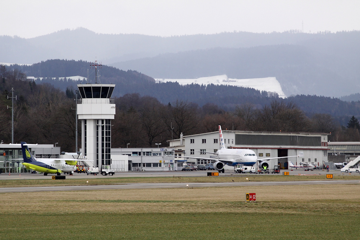 Croatia Airbus A320, largest aircraft to ever land at Bern Airport